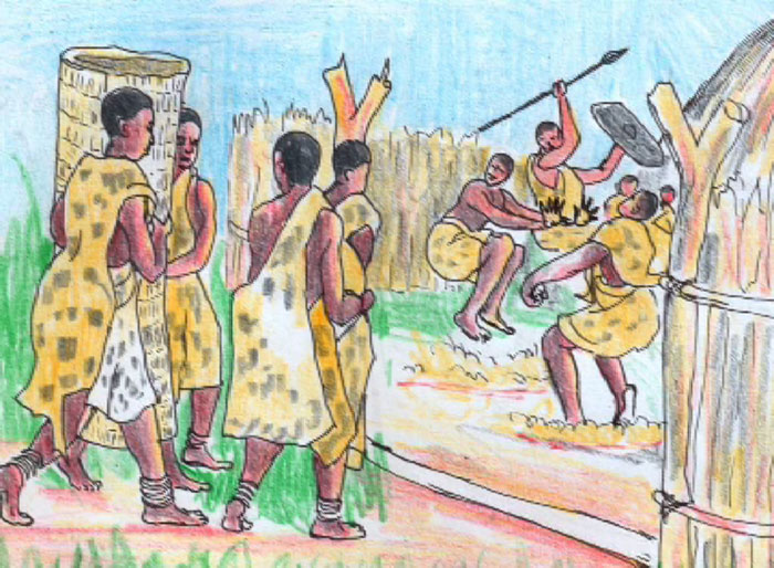 (Bakiga3,own work,Edirisa)